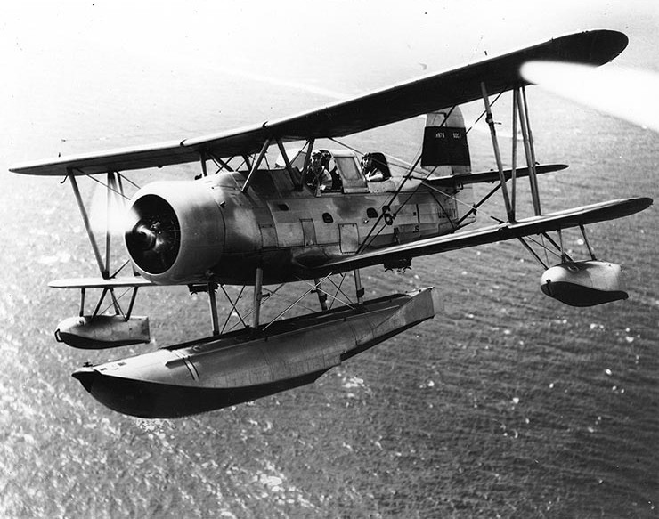 A U.S. Navy Curtiss SOC-1 Seagull scout-observation aircraft (BuNo 9979) in flight, 2 July 1939.